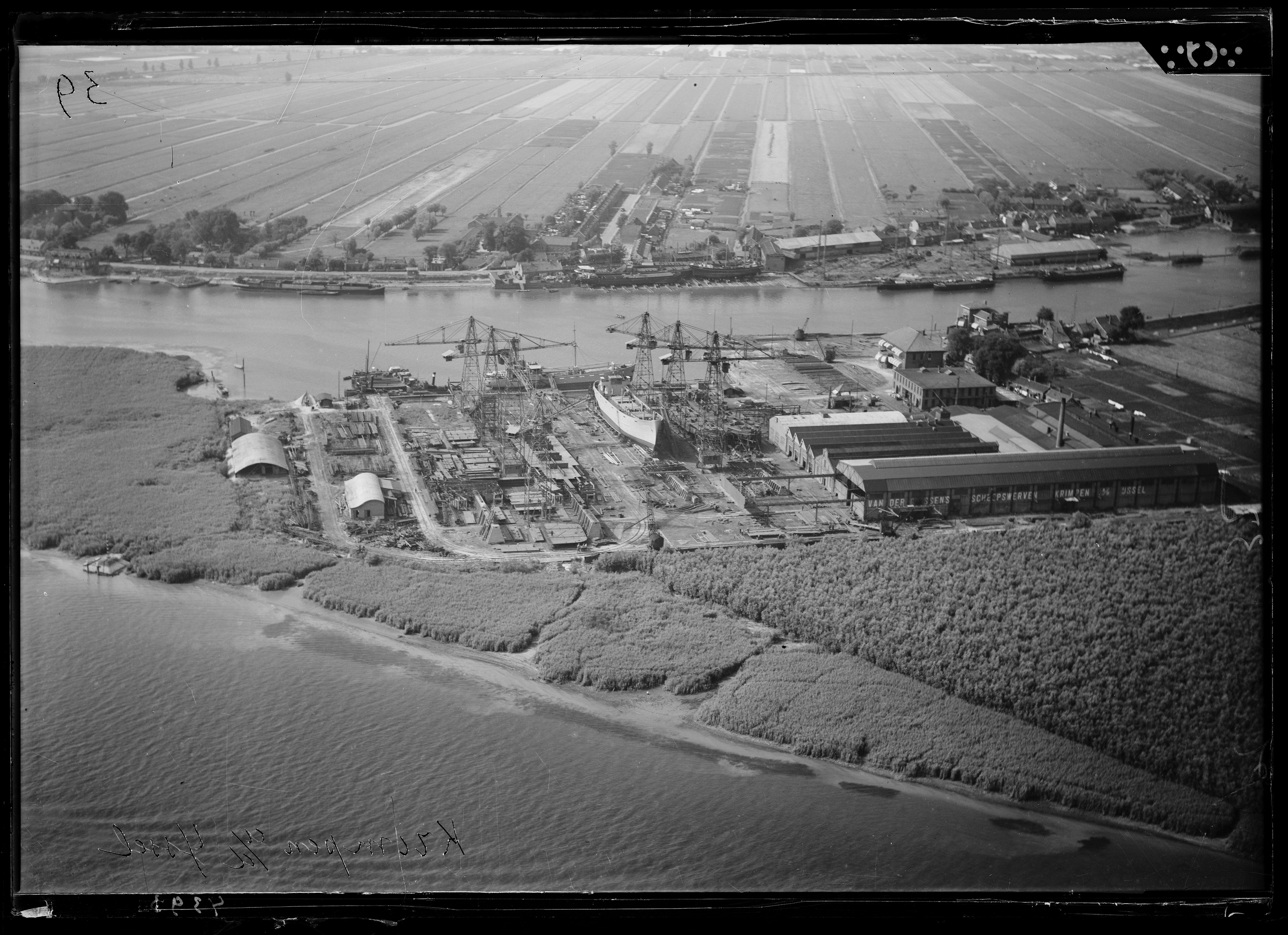 Aerial photograph of Krimpen, The Netherlands